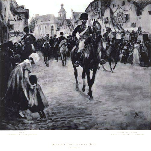 Wilhelm Schreuer (geb.1866, gest.1933), Düsseldorf